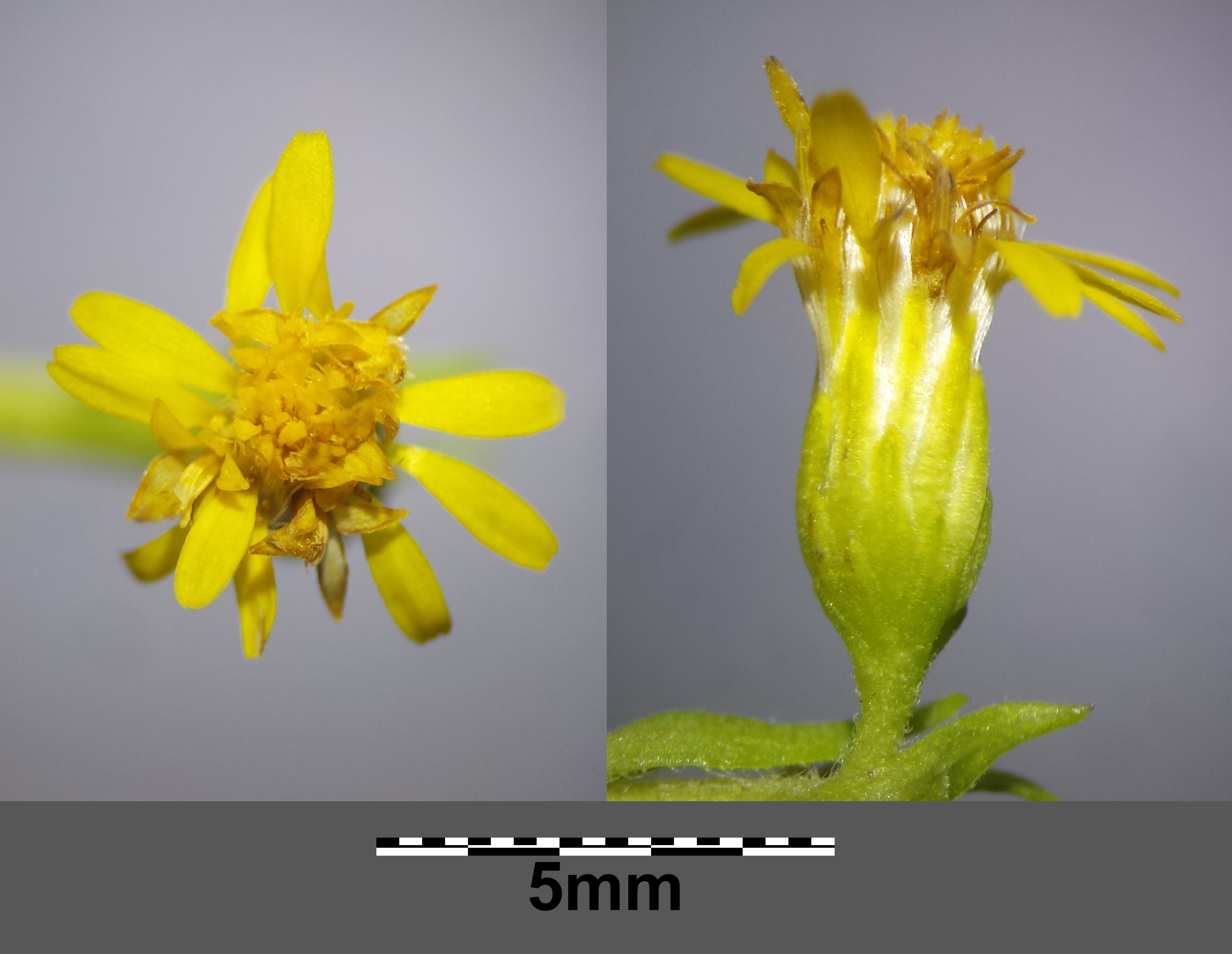 Flower Taxonym: Solidago gigantea (subsp. serotina) ss Fischer et al. EfÖLS 2008 ISBN 978-3-85474-187-9 Location: Veitsberg/Bisamberg, district Korneuburg, Lower Austria - ca. 320 m a.s.l. Habitat: fallow land